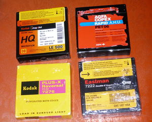 Kodak and Agfa 16mm film